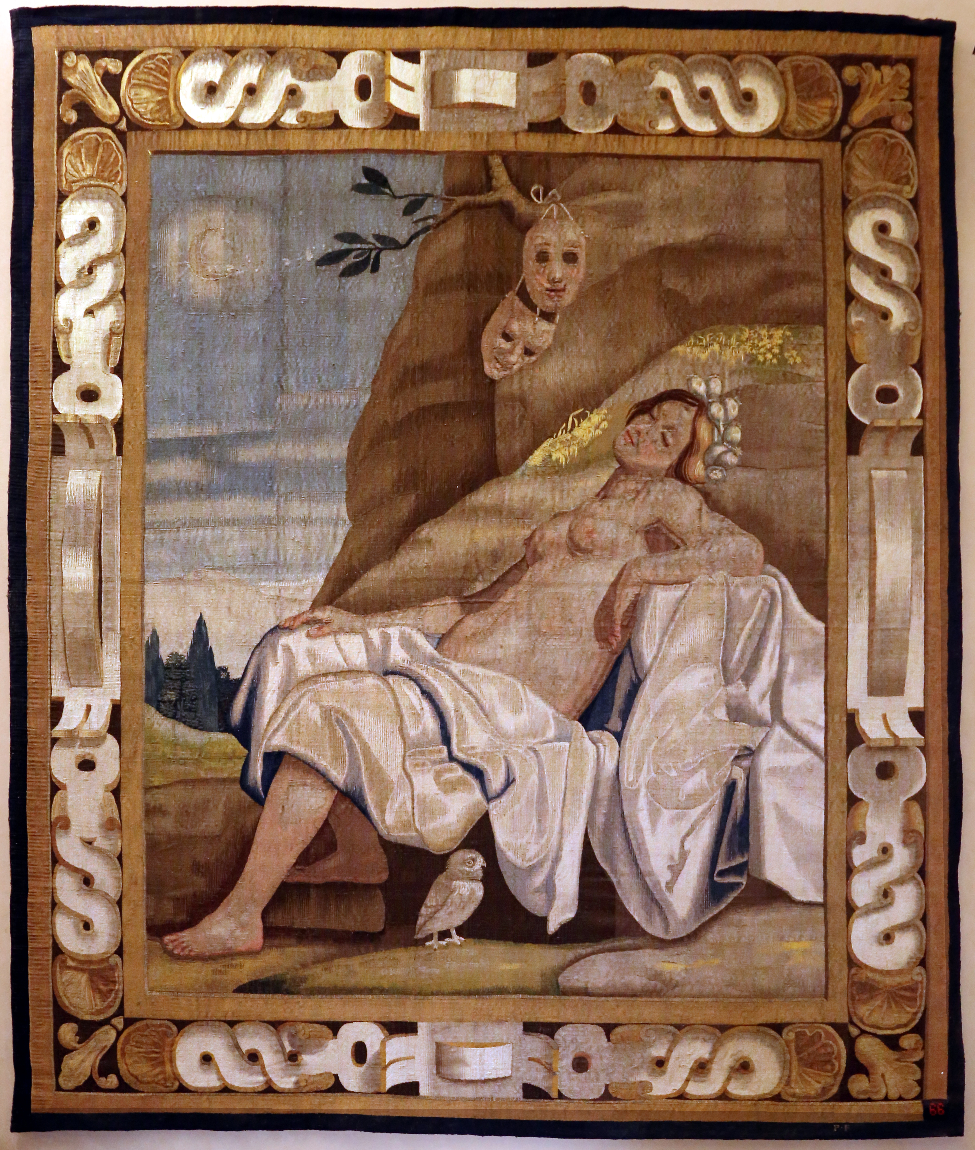 Tapestry in the Biblioteca Medicea Laurenziana